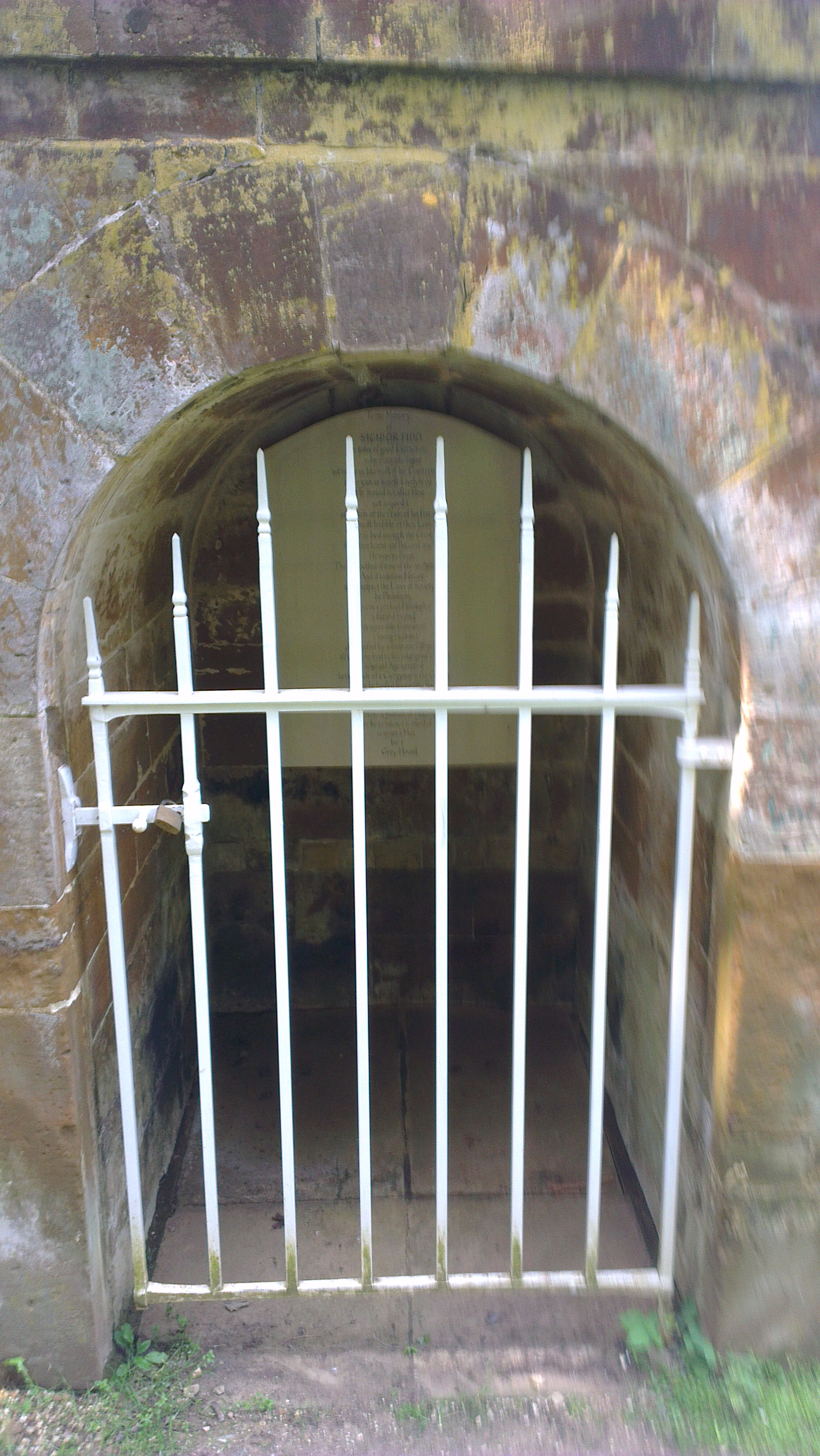 The rear of the Temple of British Worthies, Stowe Landscape Gardens, has this gate, and behind it the epitaph to Signior Fido, Temple of British Worthies